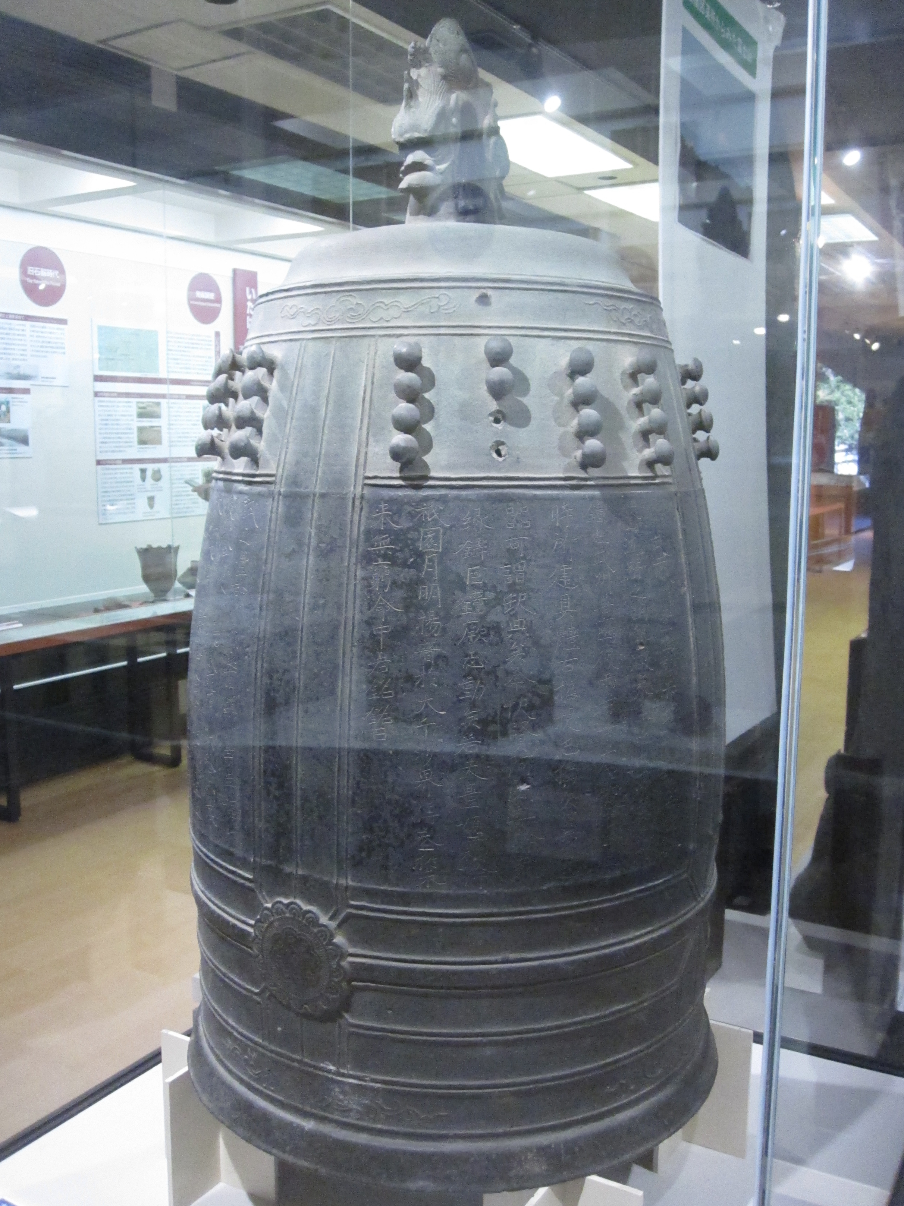 The bellof Shōgetsuin, Itabashi, Tokyo made in 1340, displayed at Itabashi Historical Museum. An Important Art Object of Japan.